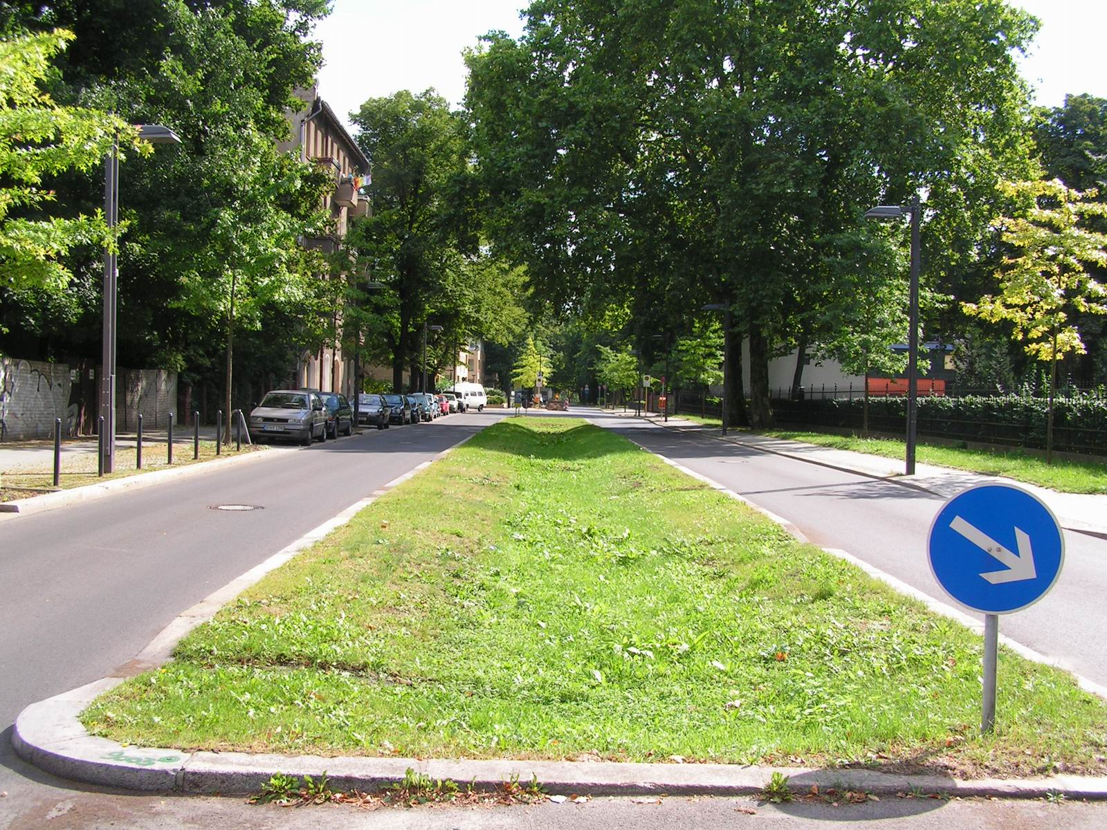 Berlin-Stralau - Tunnelstraße (tunnel street) - central reserve over the entrance to the tunnel under the Spree